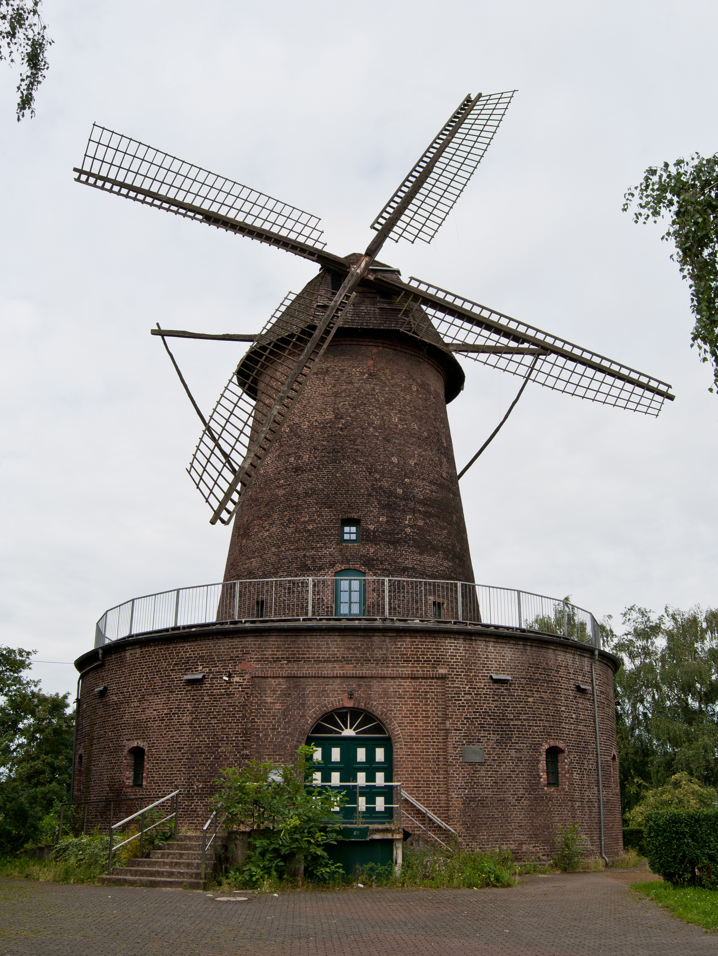 Duisburg (North Rhine-Westphalia, Germany) – borough Rheinhausen, district Bergheim – windmill This image shows a heritage building in Germany, located in the North Rhine-Westphalian city Duisburg (no. 95). This photograph was taken with a Nikon D3000